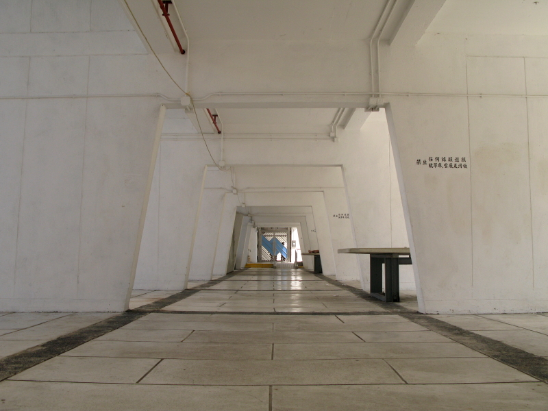 HK Shatin Jat Min Chuen Corridor